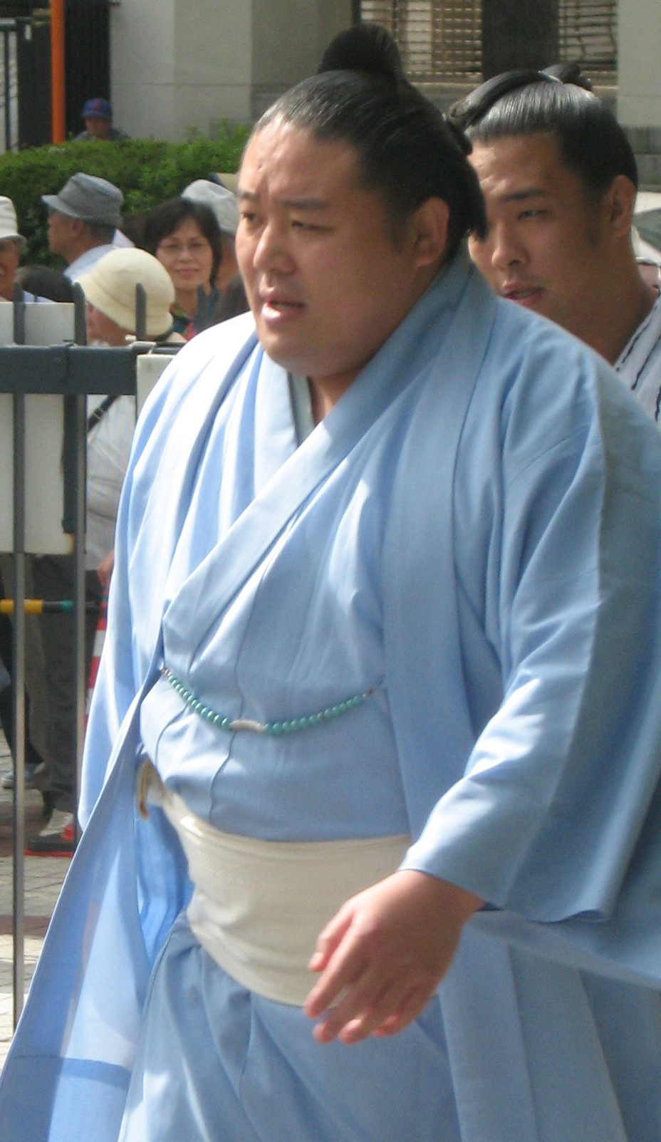 Taken at Sep 2008 tournament